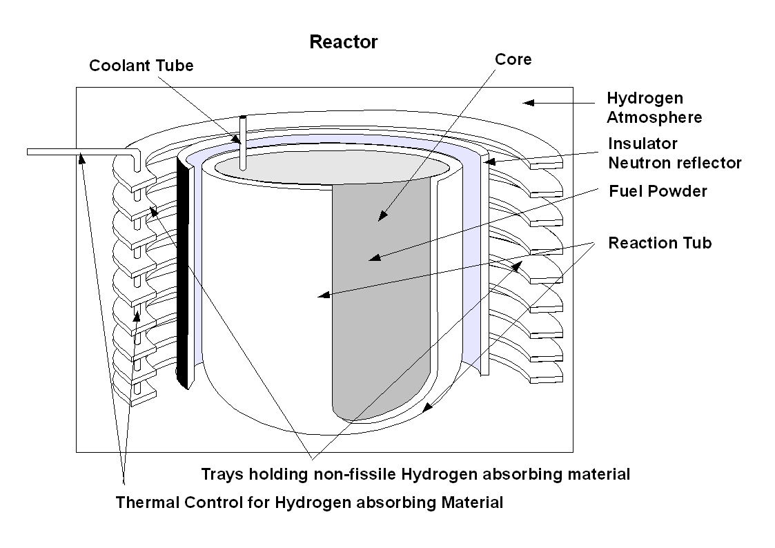 Schematic of a hydrite moderated self-regulating nuclear reactor